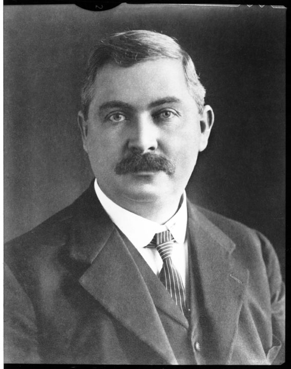 Portrait of The Honourable Thomas Joseph Ryan, Premier of Queensland.